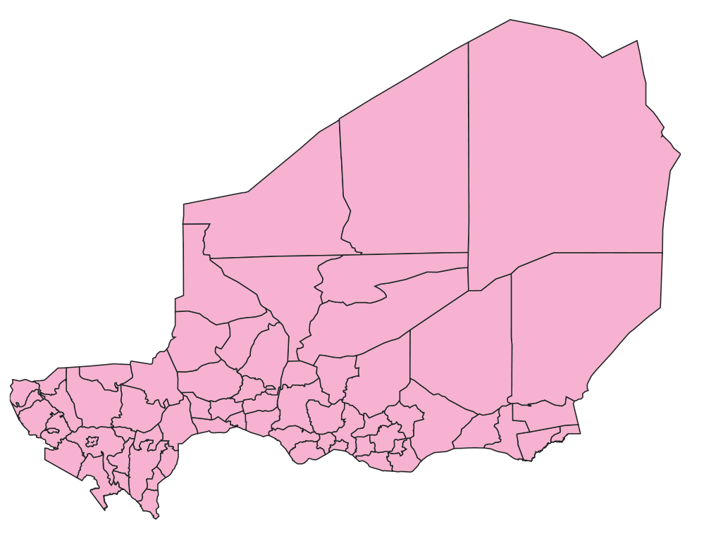 Map showing 2016 Presidential Election results from second round of presidential elections by Region in Niger Mahamadou Issoufou Hama Amadou